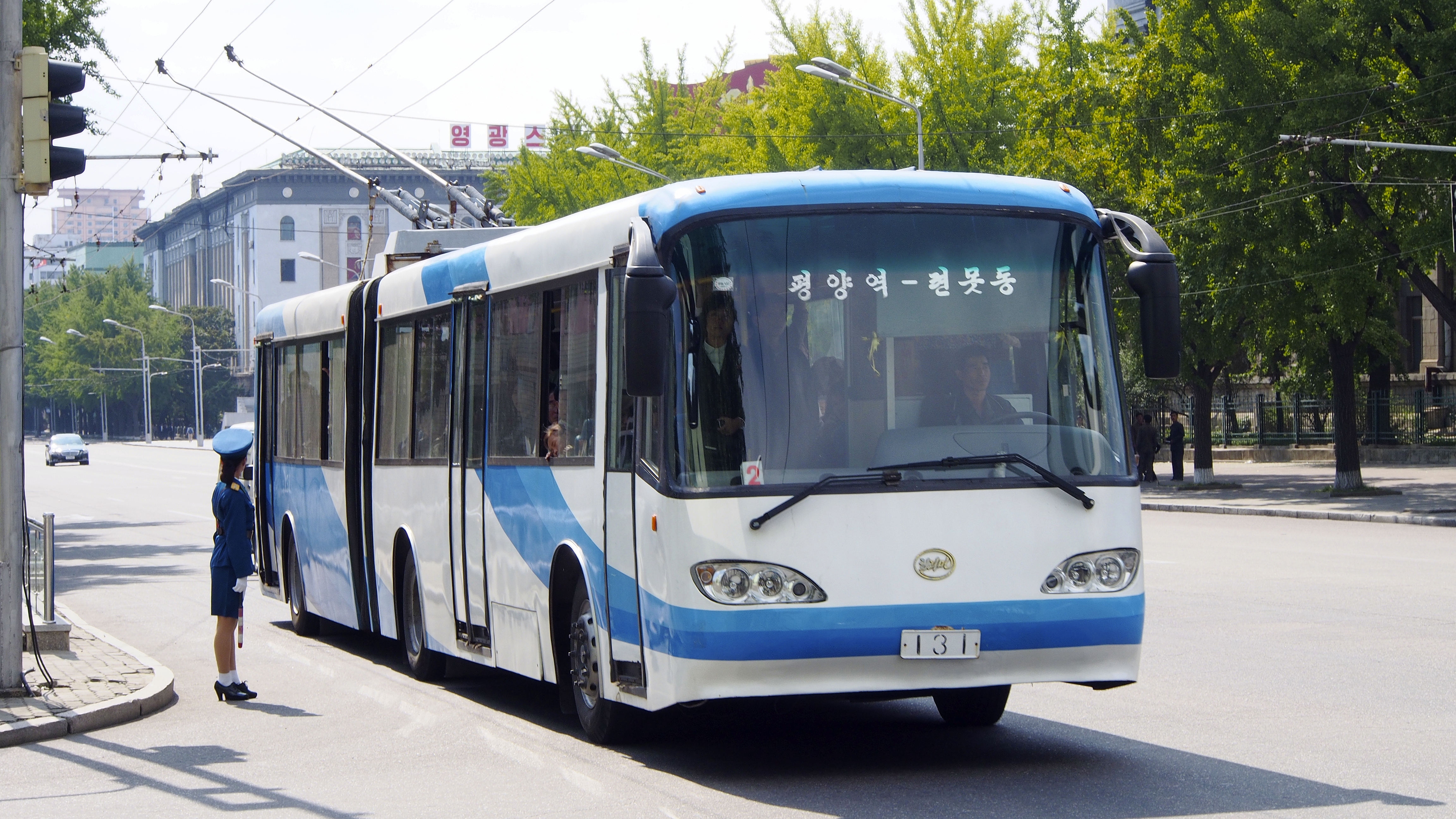 Young Pioneer Tours 2013 Chinese National Day Tour. For a video of the trip made by the DPRK tourists authority take a look at